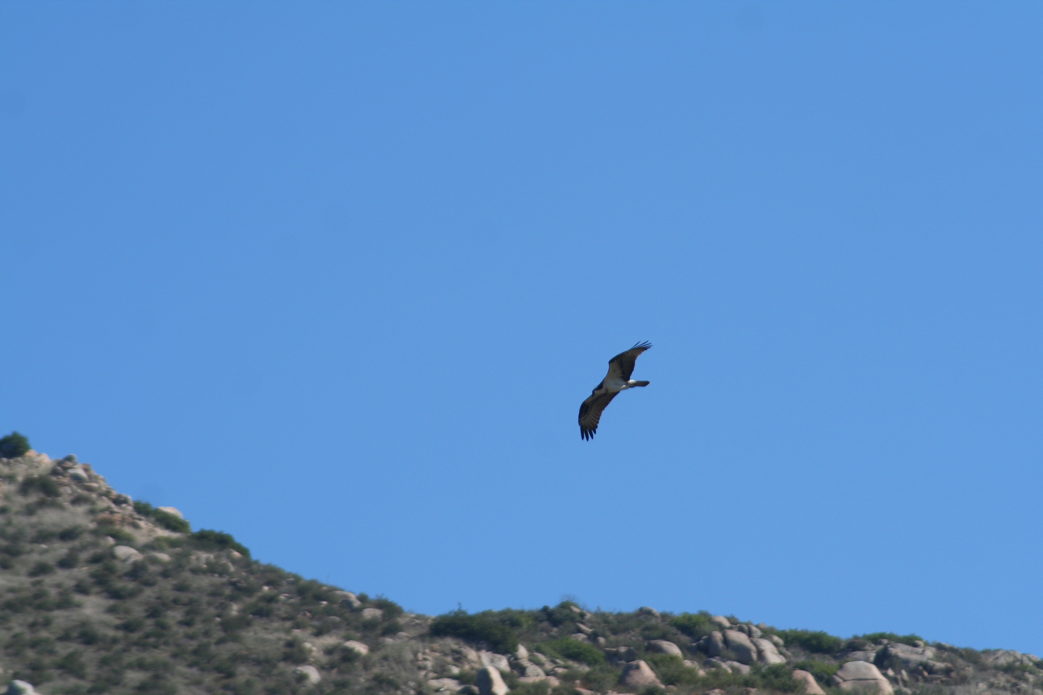 Osprey — Pandion haliaetus, raptor. At El Capitan Reservoir, El Monte Valley, San Diego County, California.